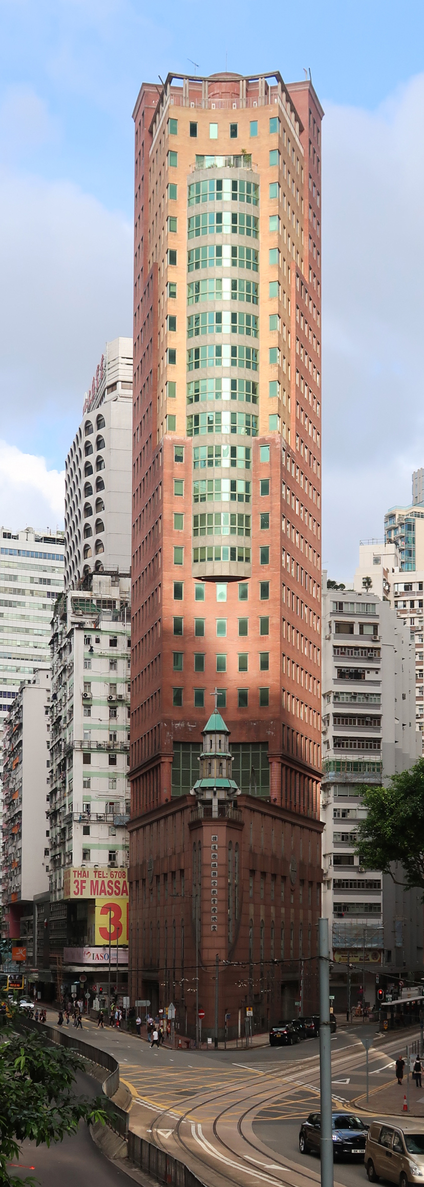 Chinese Methodist Church